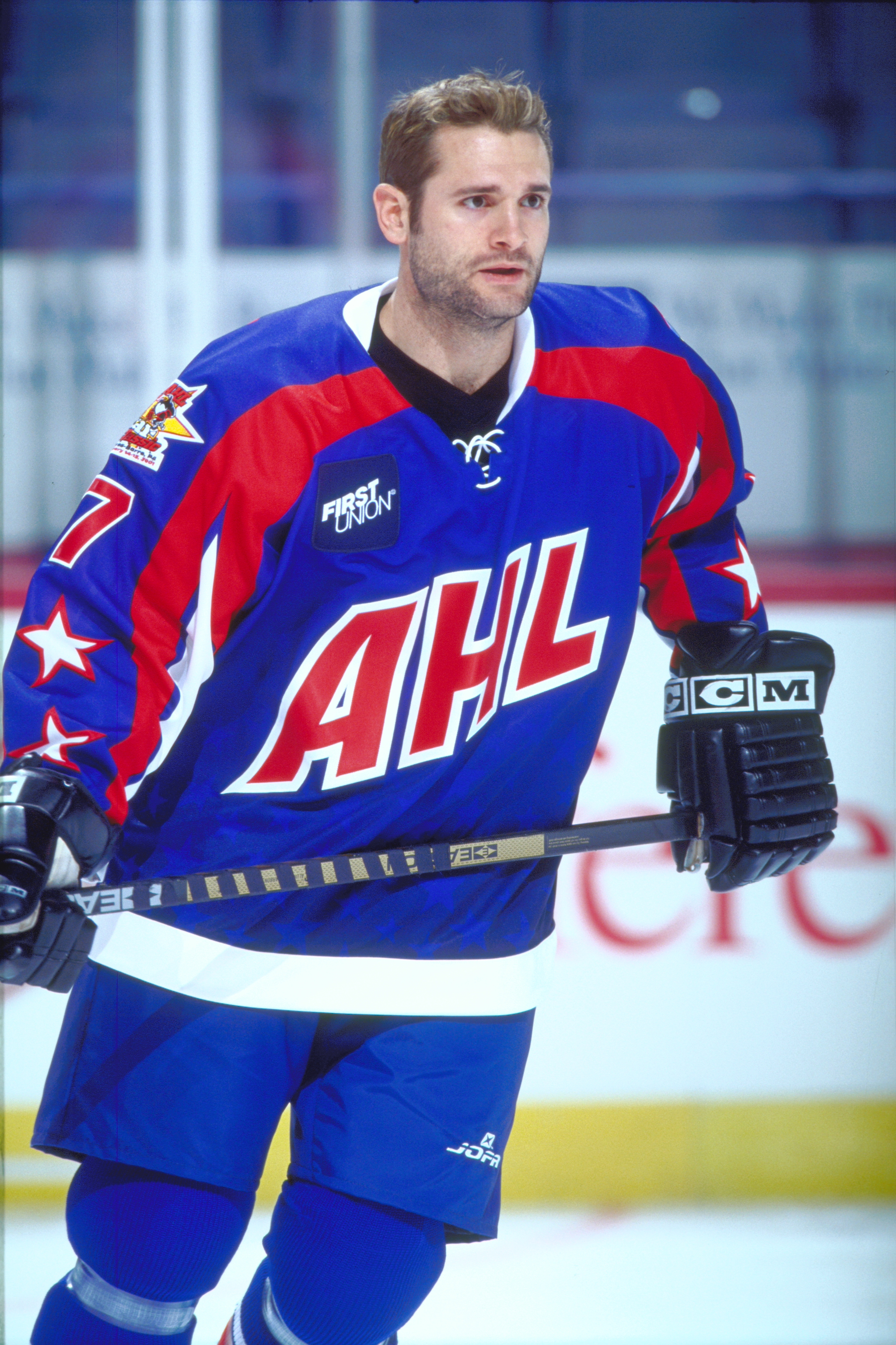 hhof0316